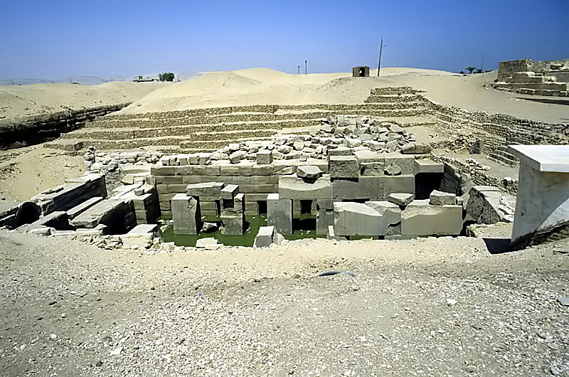 Osireion, view to the north, Temple of Seti I, Abydos, Egypt